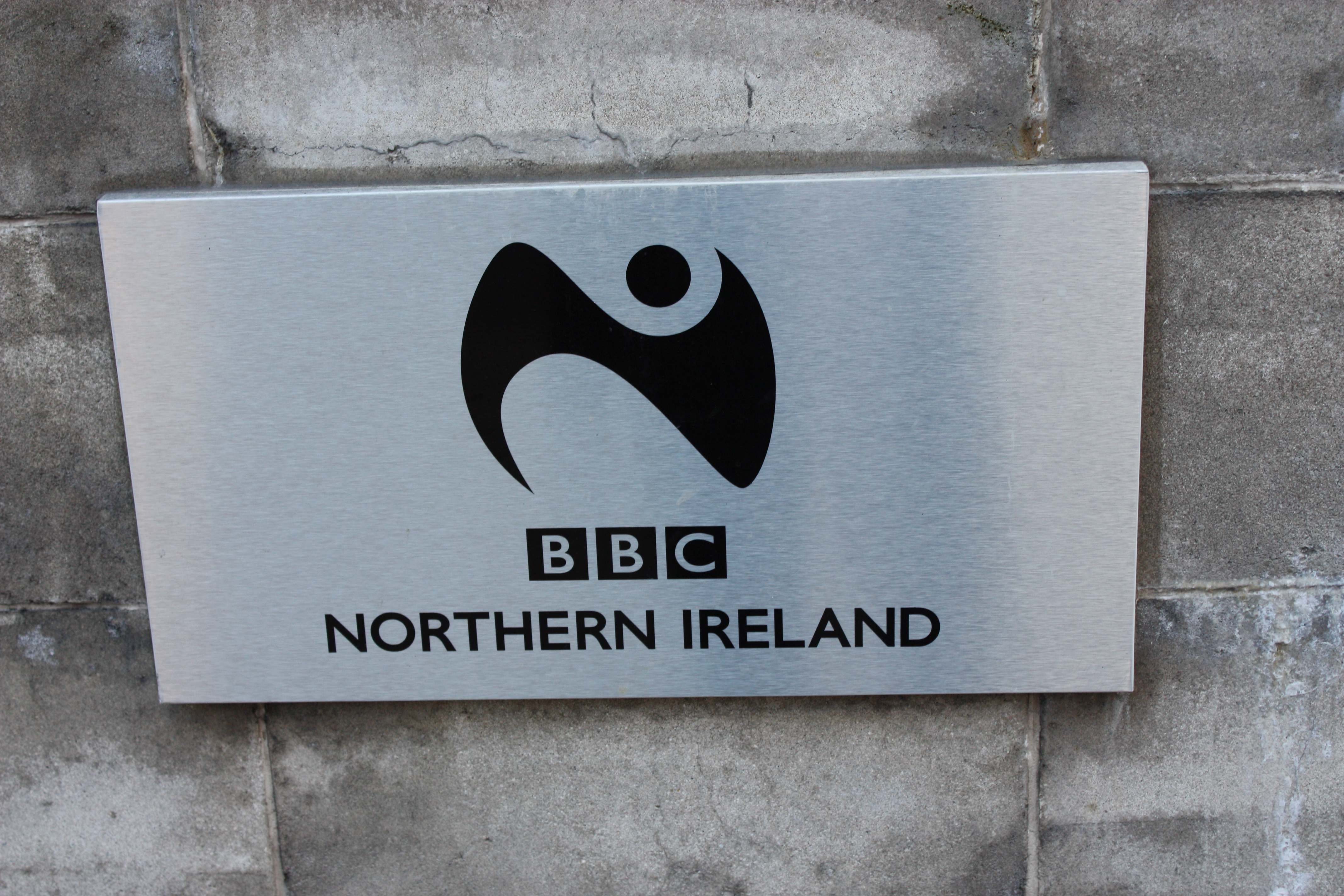 Sign on BBC Broadcasting House, Ormeau Avenue, Belfast, Northern Ireland, October 2010